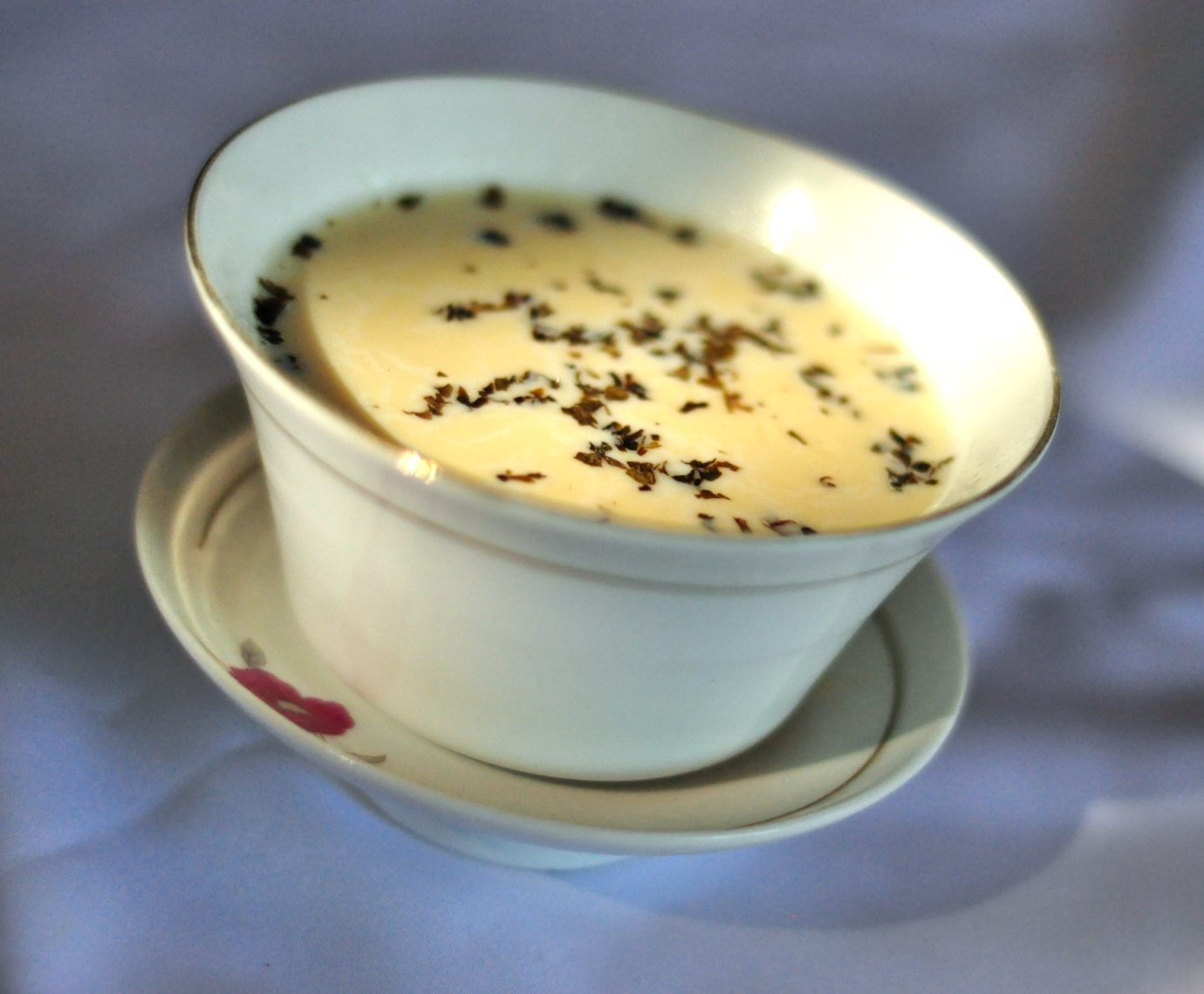 A Cup of Latte made with Matcha, Called Green Tea Latte. Popular variation of Latte found in Asian Countries